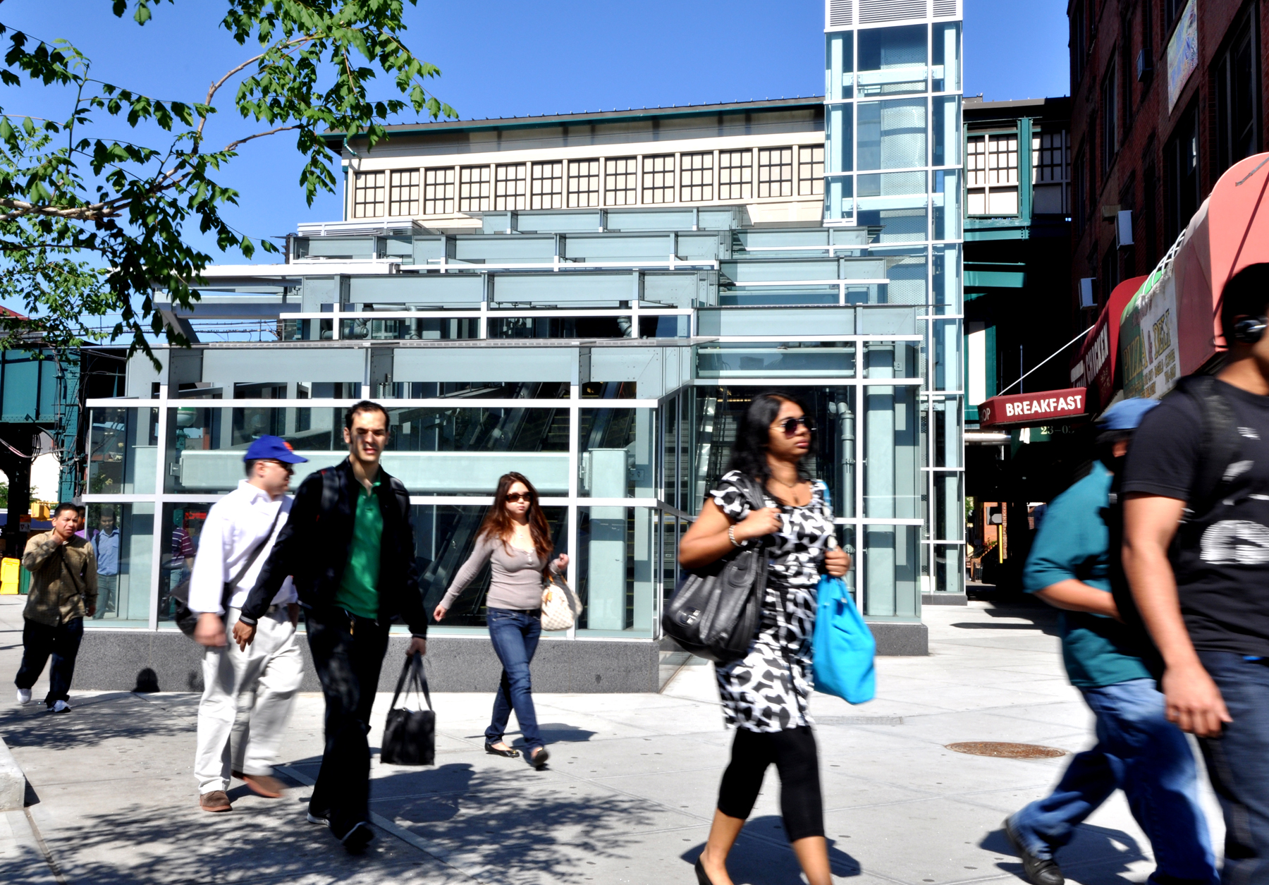 The transfer passageway between the underground IND stations and the aboveground IRT station. Photo by Metropolitan Transportation Authority / Felix Candelaria.